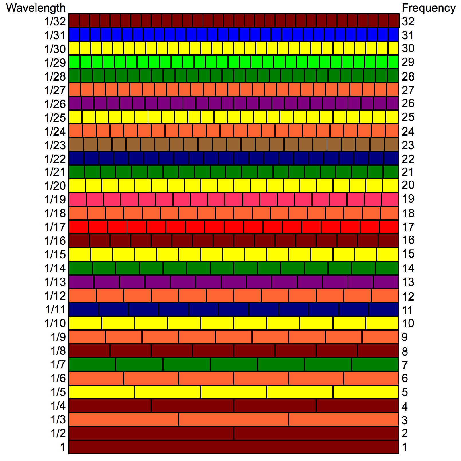 First 32 harmonics, colored by identity. Thus all harmonics unique to each limit share the same color.